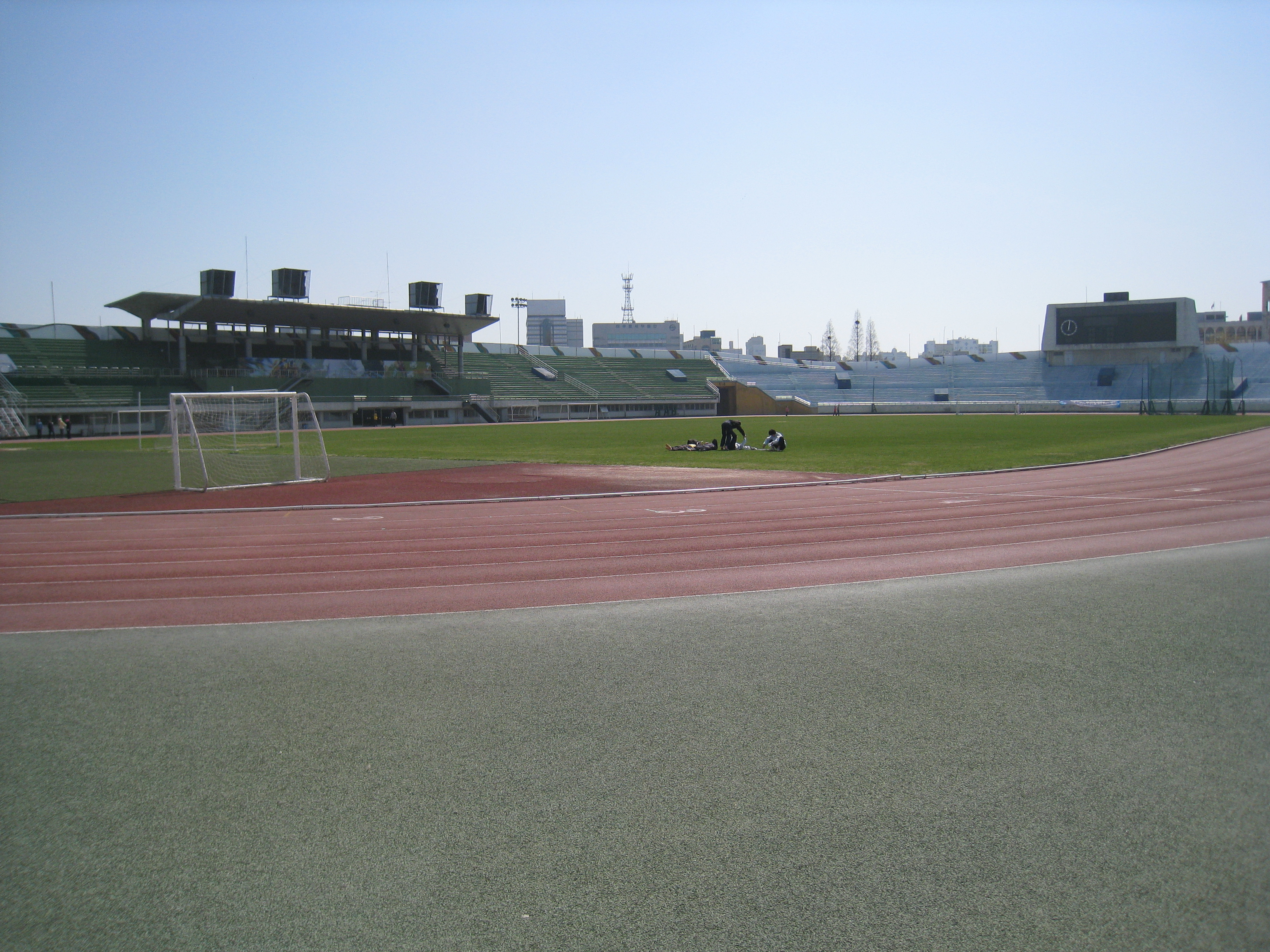 Incheon Sports Complex